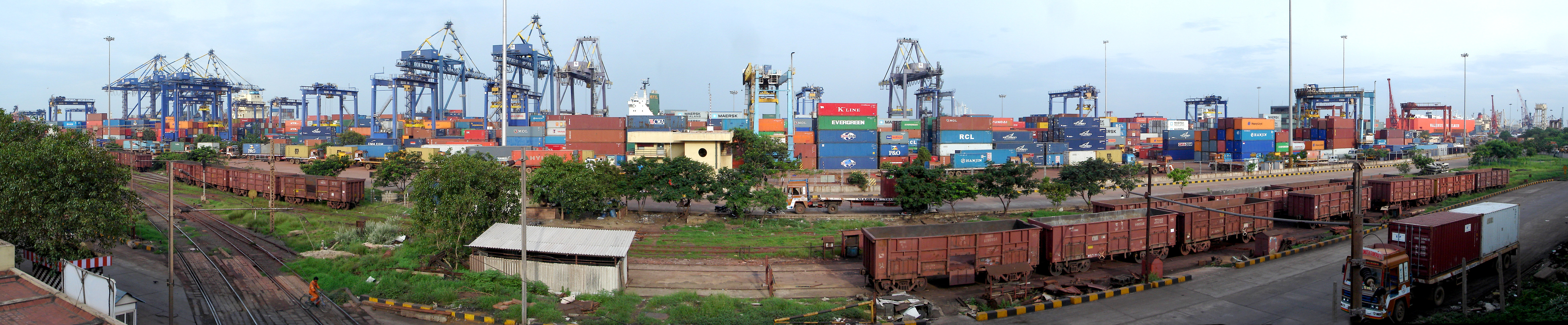 View of Chennai Port from Royapuram bridge.